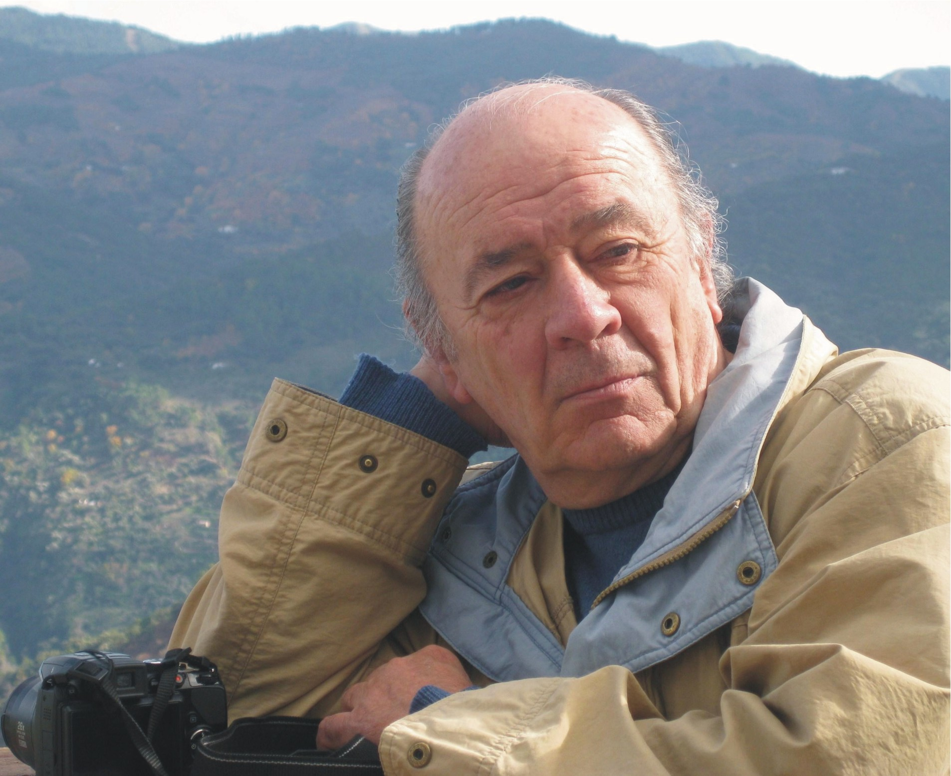 The author Miguel Alcobendas